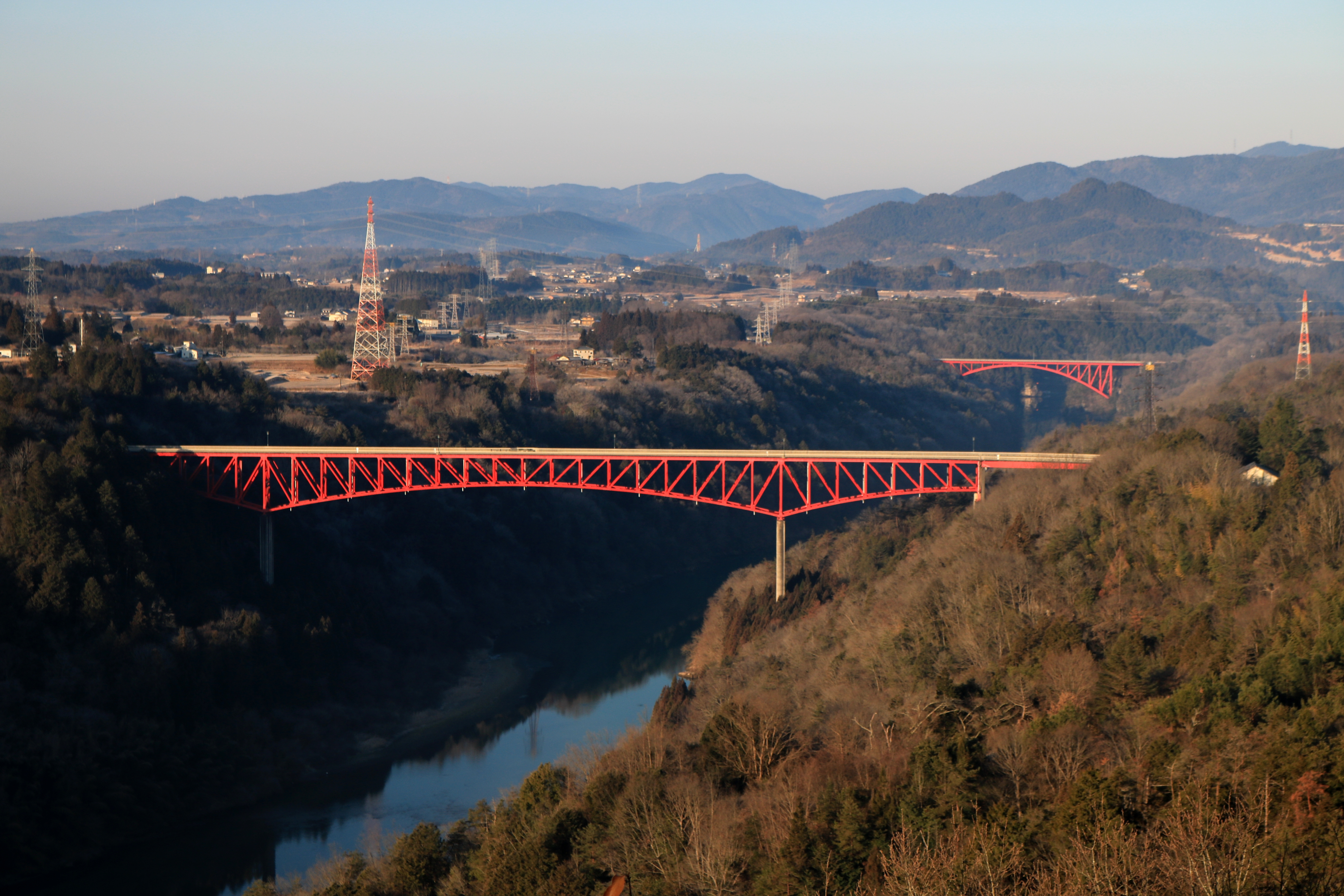 Shiroyama Bridge (Route 257) and Mie Bridge (Gifu Prefectural Road Route 410) over Kiso River seen from Naegi Castle in Nakatsugawa, Gifu prefecture, Japan.